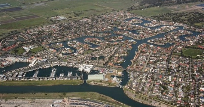 An overview of Patterson Lakes.